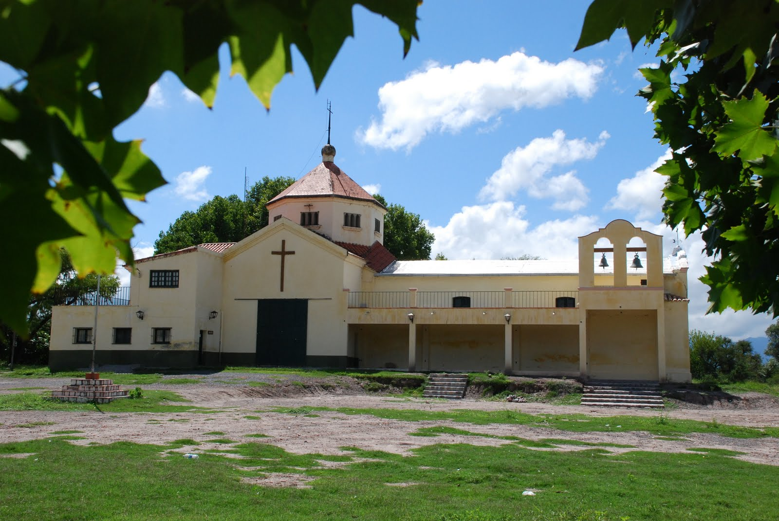 Iglesia de Sumalao, Salta